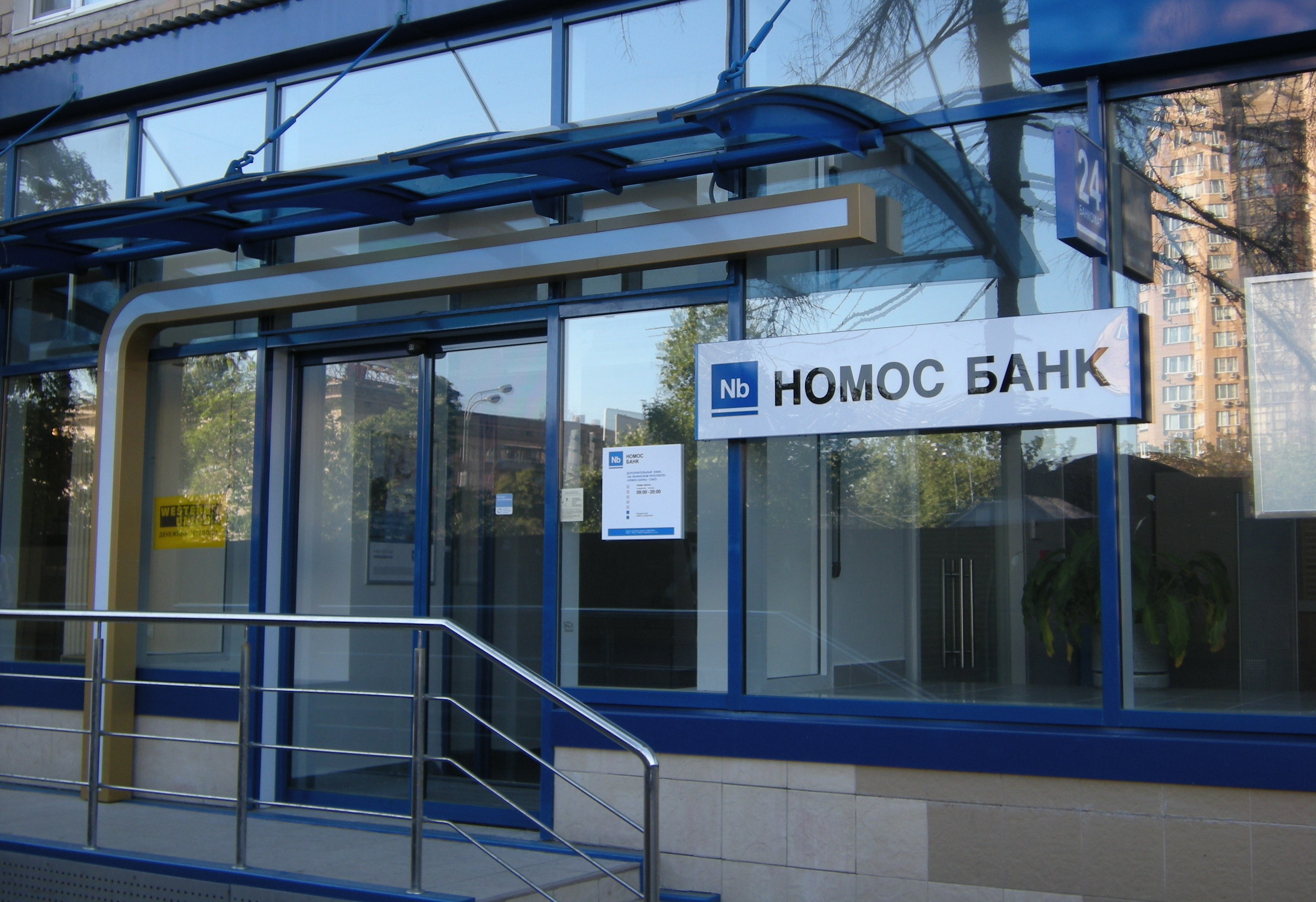 One of over three hundred Nomos Bank retail branches in Russia